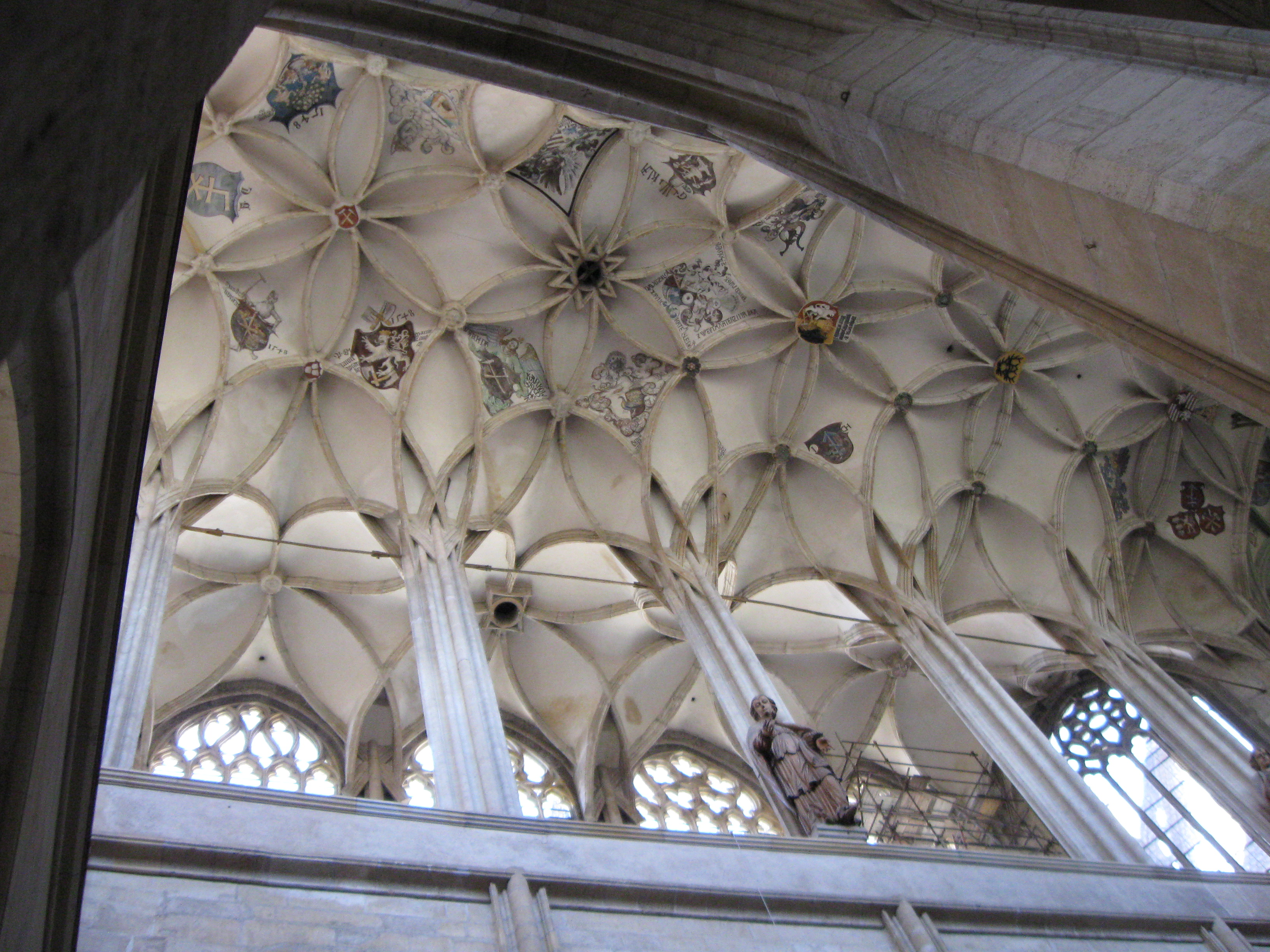 Cathedral of St. Barbora in Kutná Hora, Czech Republic..